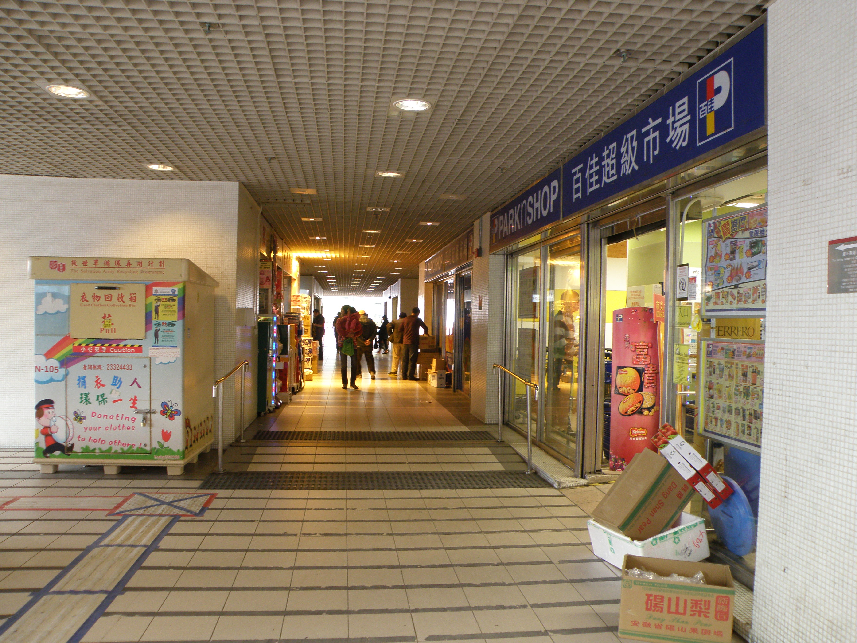 Tsz Ching Shopping Centre II in Tsz Wan Shan, Hong Kong.